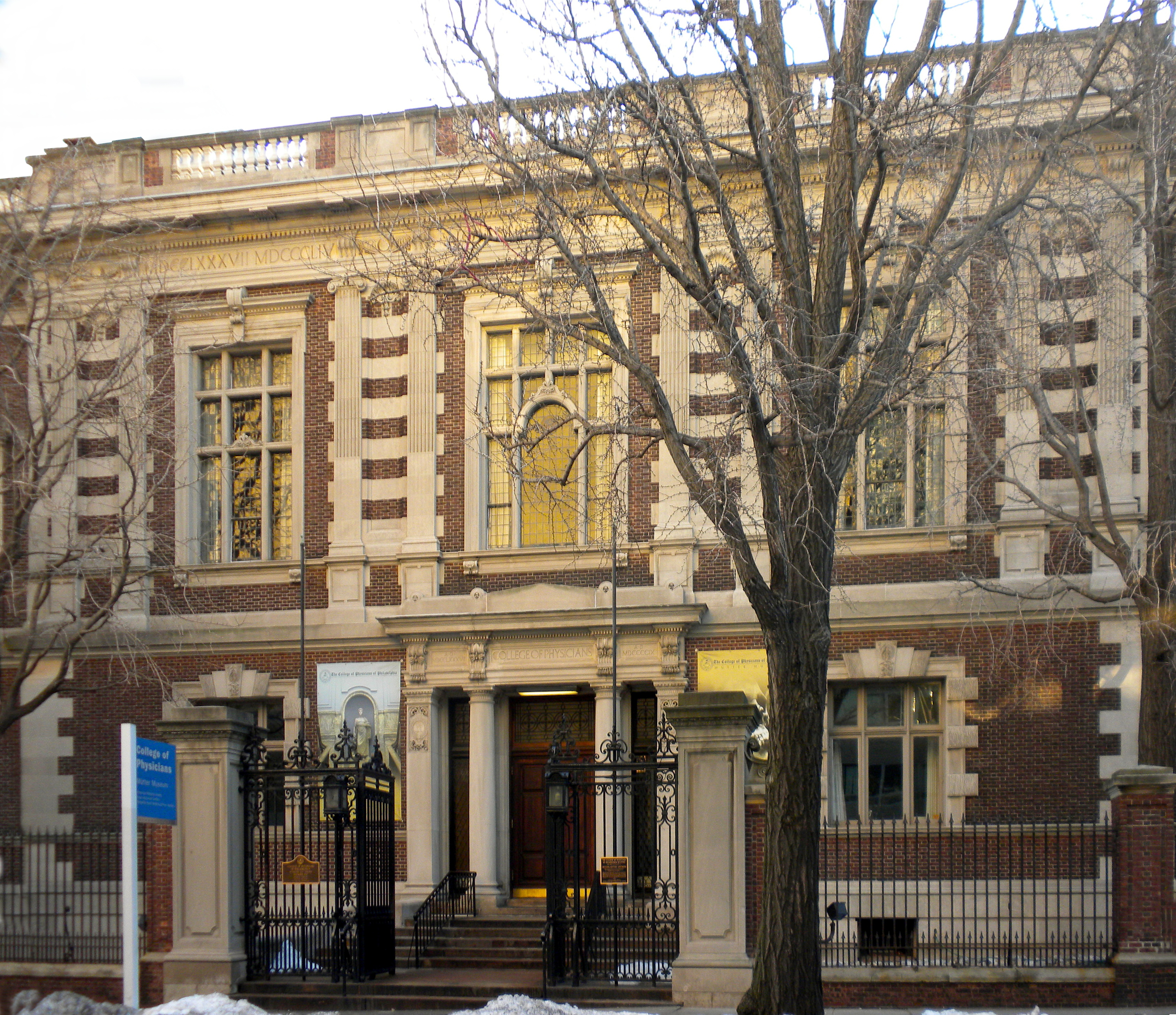 College of Physicians of Philadelphia. Founded in 1787 it is the oldest private medical society in the United States. At 19 South 22nd Street, in the Center City area of Philadelphia. Hosts the Mutter Museum — a medical history museum. National Historic Landmark since October 2008, and on the National Register of Historic Places (#08001088).